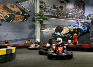 Indoor karting, in South Florida (Xtreme Indoor Karting)